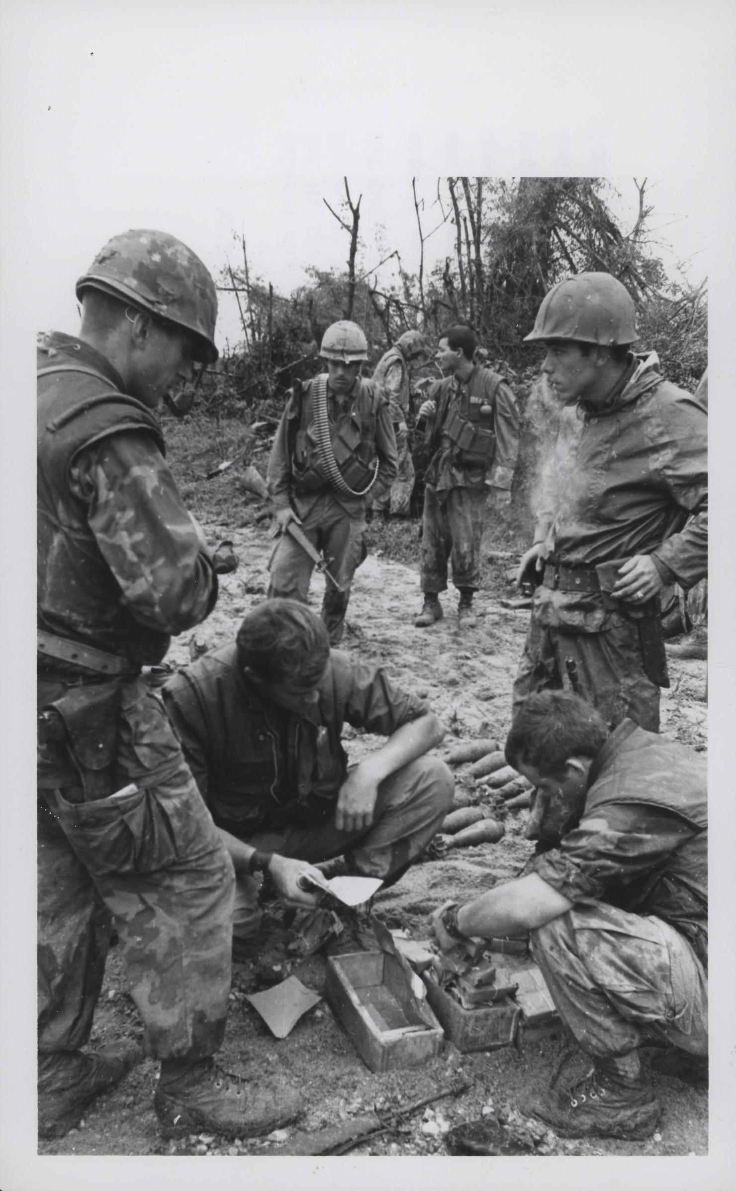 "Wet Cache: Leathernecks of the 5th Marines near An Hoa inspect a cache of enemy ammunition and documents they found on a river crossing during Operation Taylor Common. The rain-swollen river washed away the protective covering of the cache and sharp-eyed Marines spotted the ammunition (official USMC photo by Private W. L. Cummings)." From the Jonathan Abel Collection (COLL/3611), Marine Corps Archives & Special Collections. OFFICIAL USMC PHOTOGRAPH